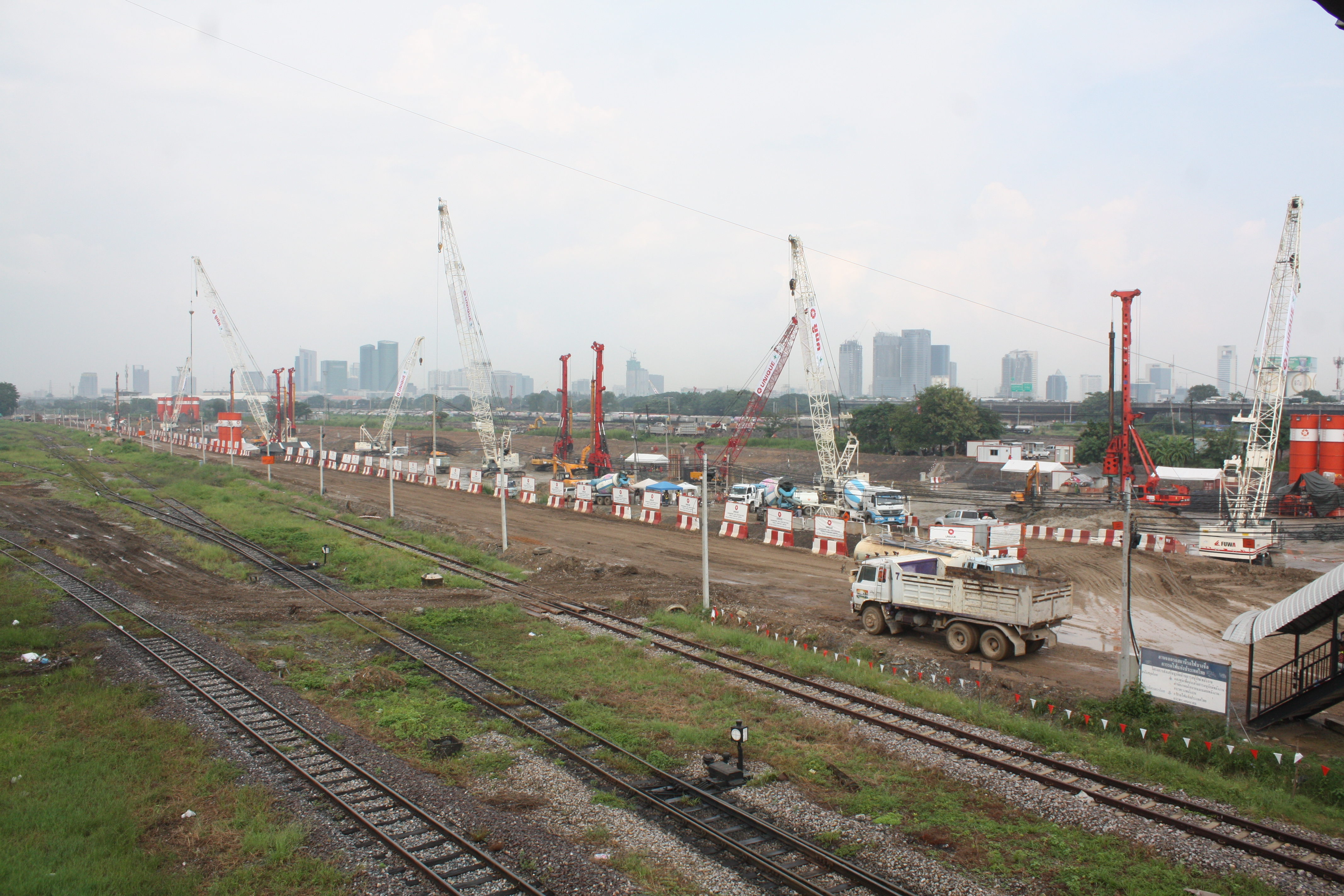 Bang Sue Grand Station